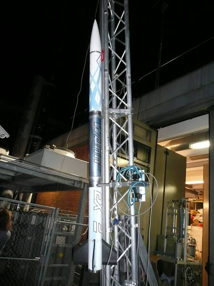 The experimental rocket WARR-Ex 2 on its launch rail